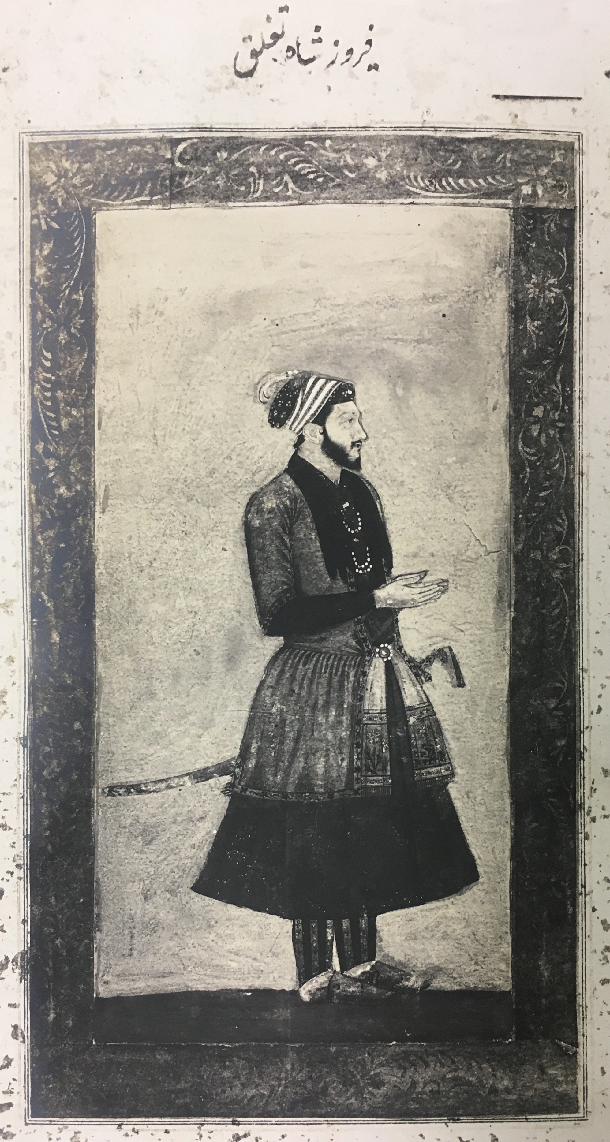 Sultan of Delhi,Firuz Shah Tughlaq, 1300-1399